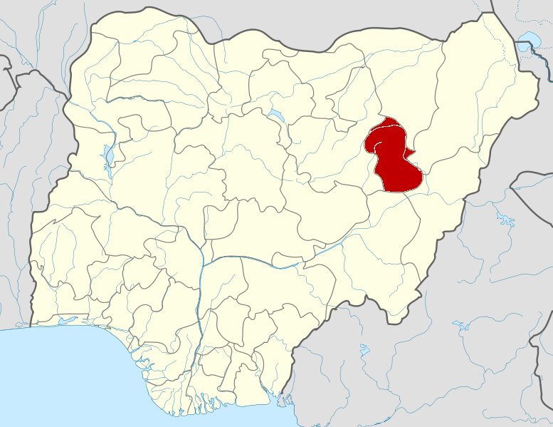 Map locator of Nigeria.